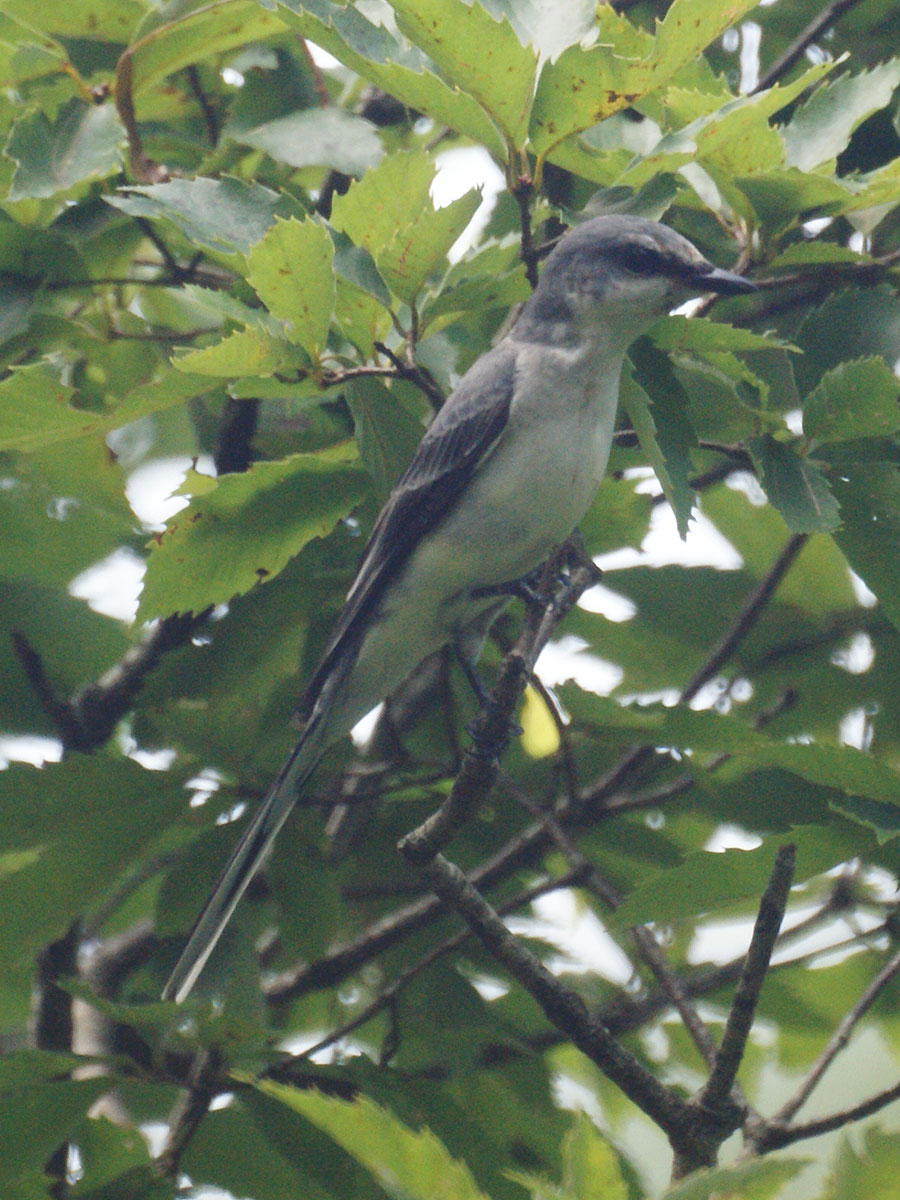 Ashy minivet